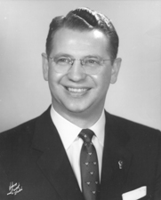 Official photo of Senator Rupert Vance Hartke (D-IN).